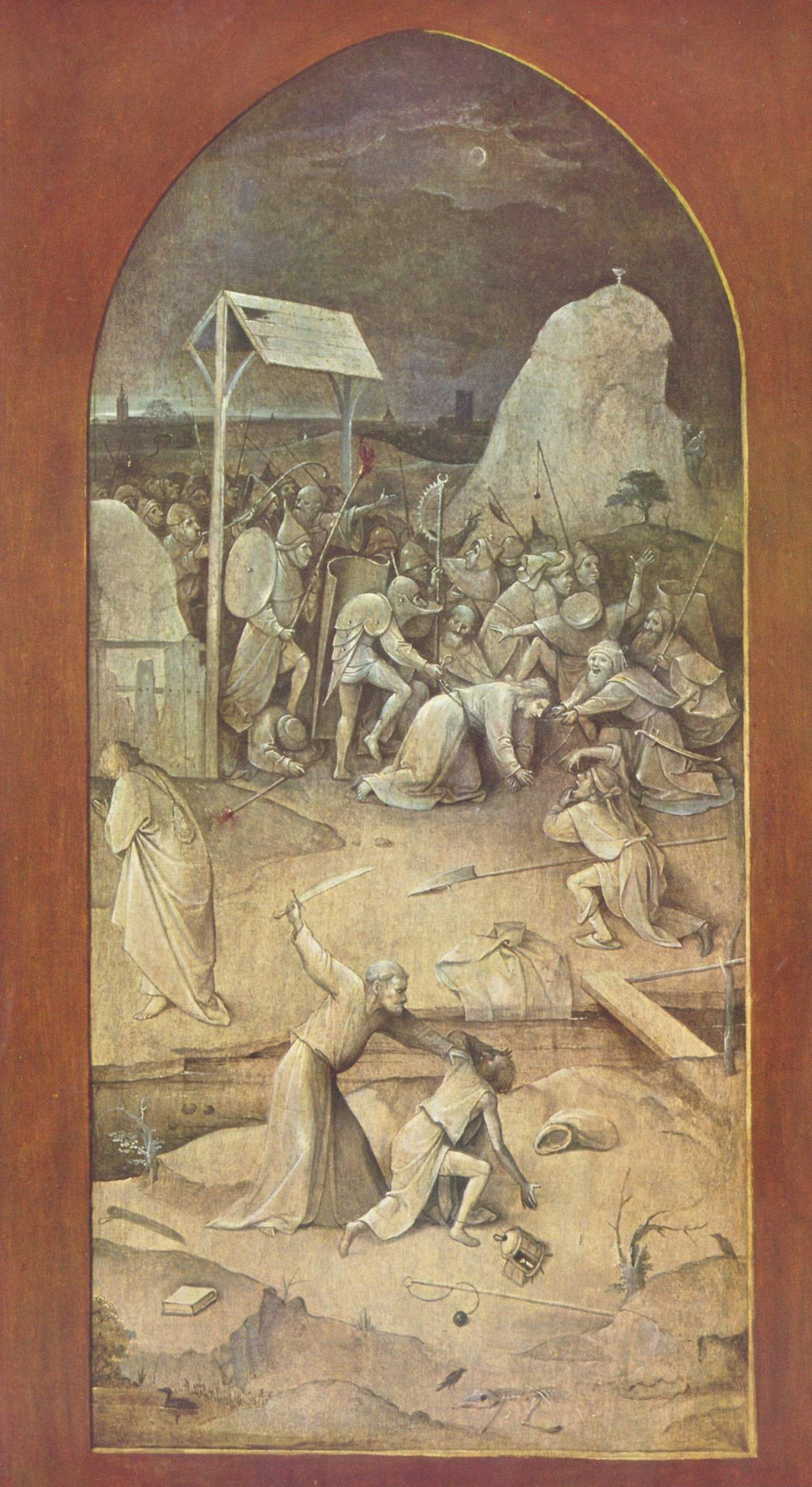 Outer left wing of a triptych depicting The Temptation of Saint Anthony.